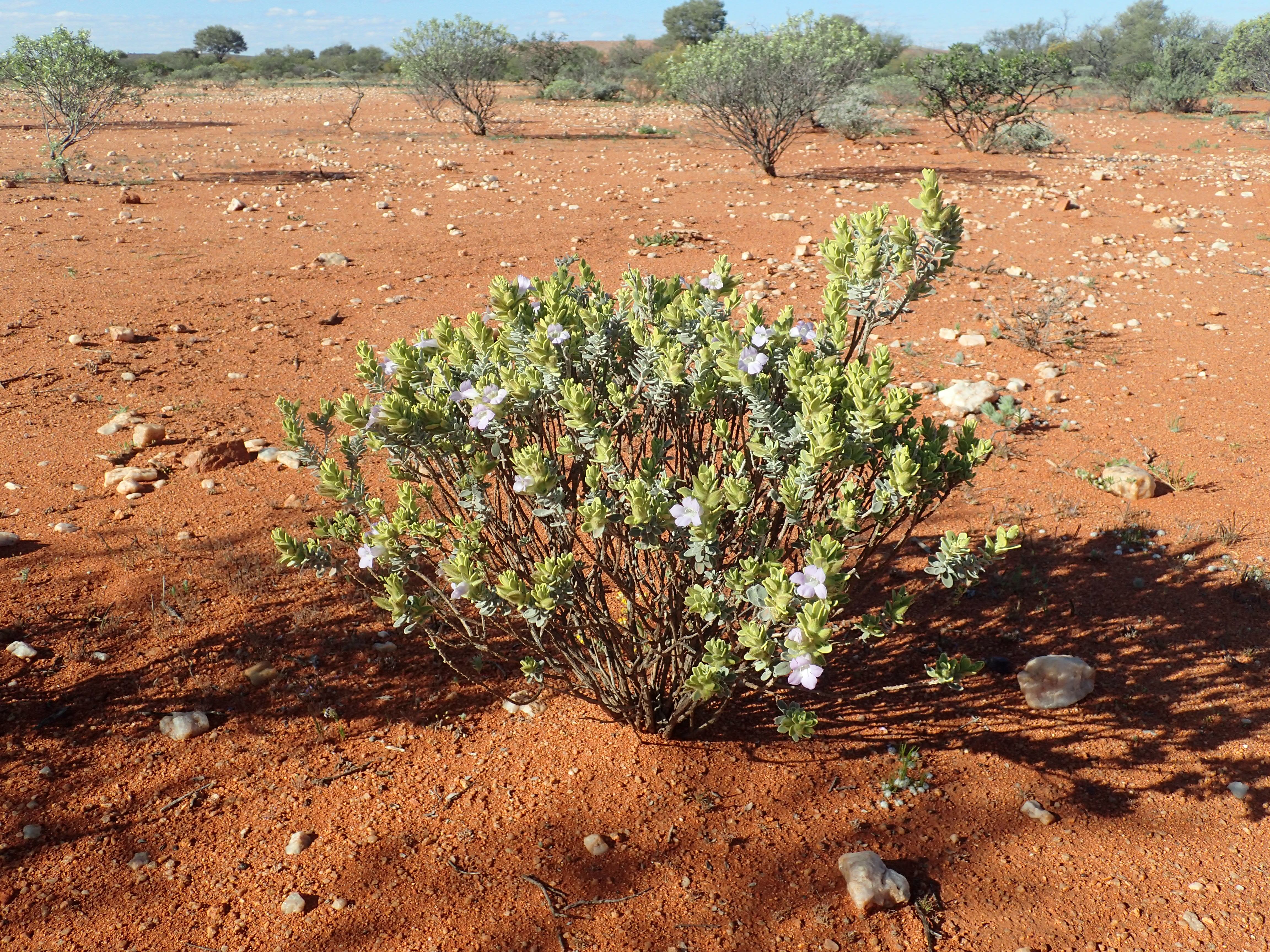 Eremophila jucunda jucunda growing at Nannine (near Meekatharra)